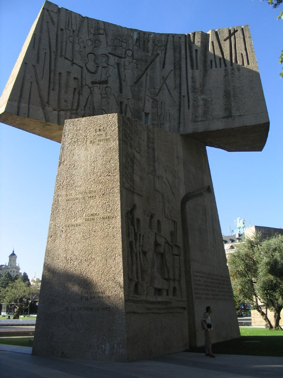 Sculpture in Colón Square, Madrid, Spain